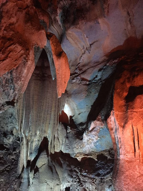 Stalactites in the Underground River of Mount Liudong in Lanxi, Zhejaing, China.